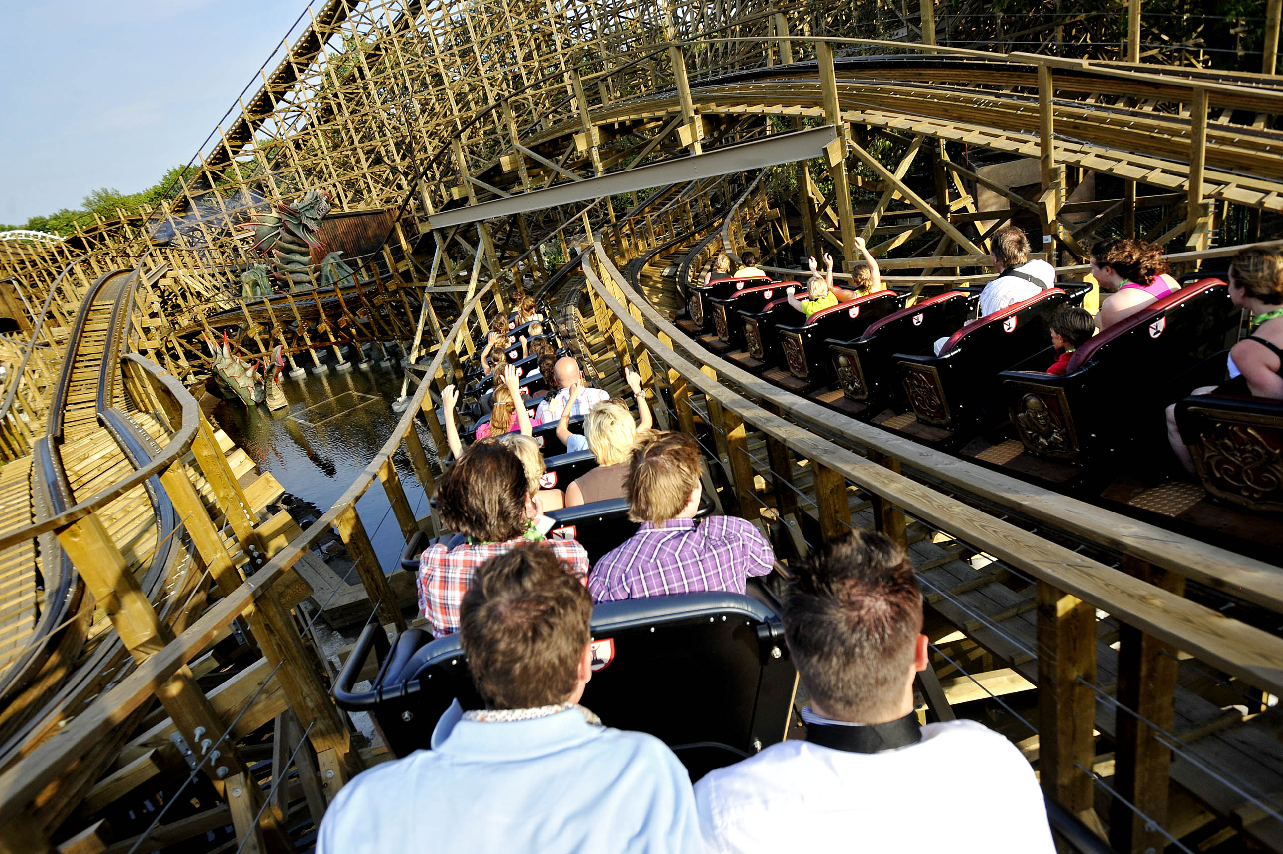 Joris en de Draak (Joris and the Dragon) in themepark the Efteling (NL), made by Great Coasters International